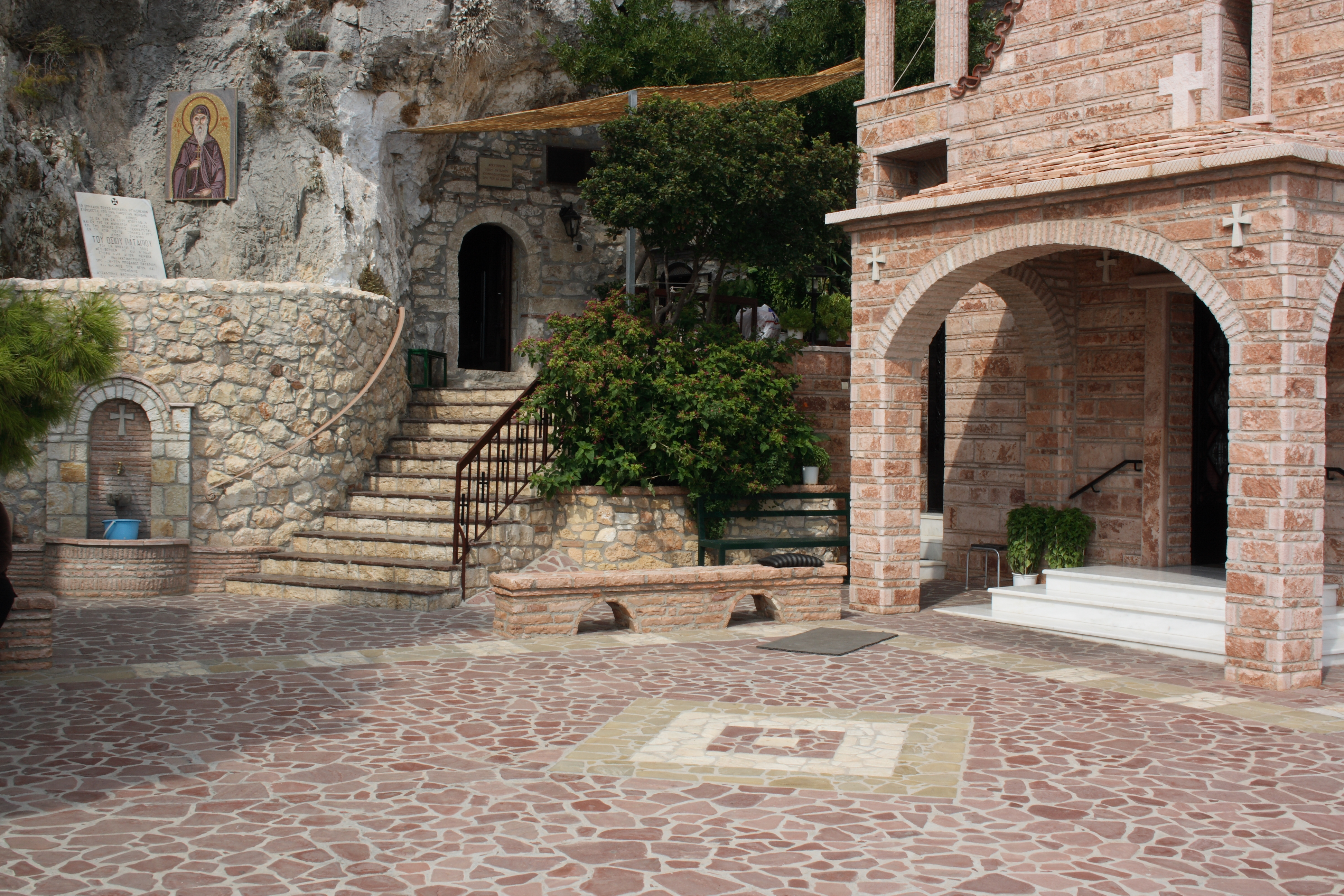 Inside the monastery of st.Patapius